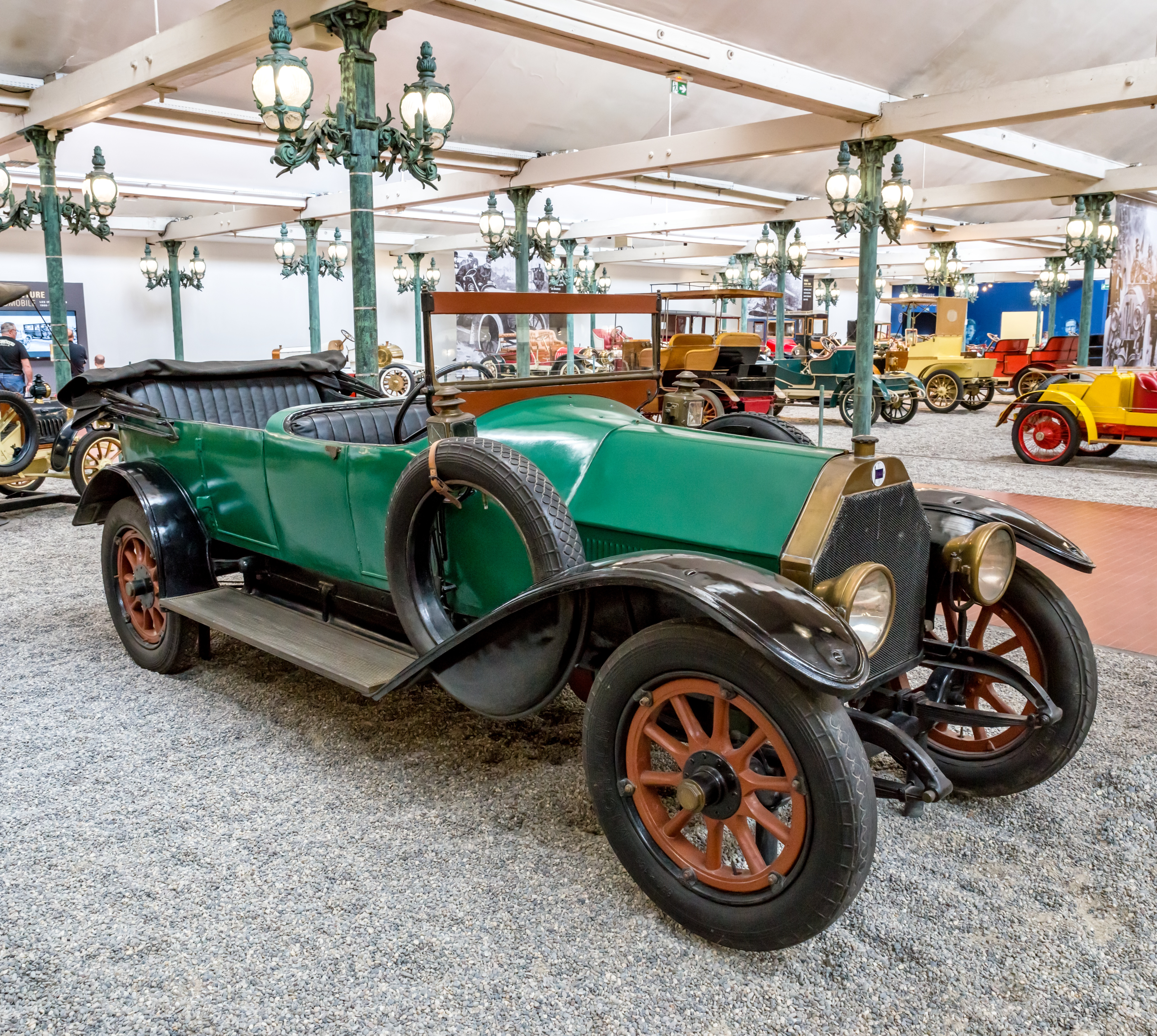 pictures from the Cité de l’Automobile – Musée National – Collection Schlump in Mulhouse, France ptictures from the 10. may 2018